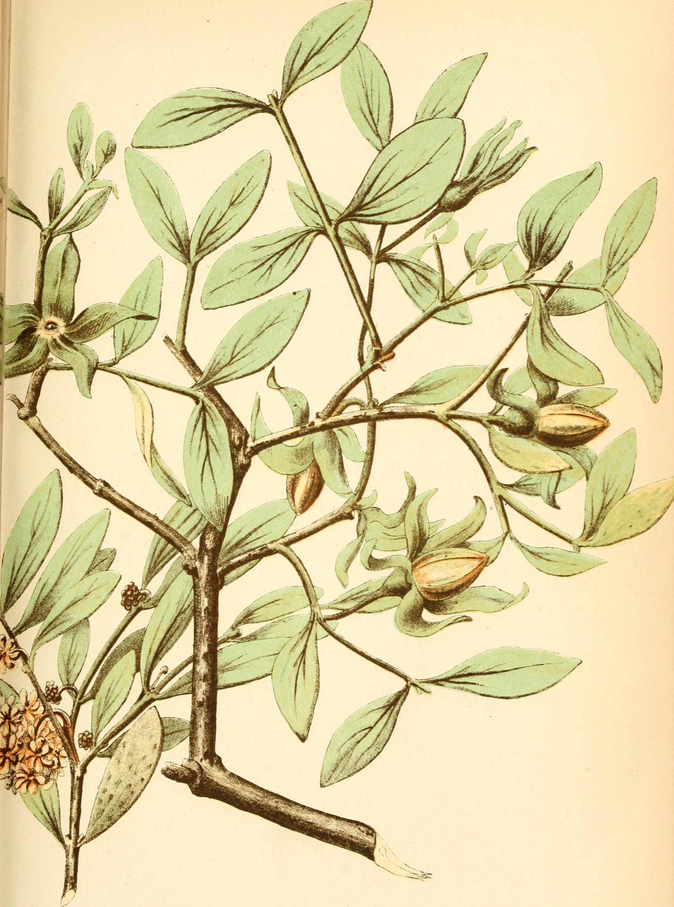 Title: Bulletin of the California Academy of Sciences Year: 1884-1886 (1880s) Authors: California Academy of Sciences Subjects: Natural history; Science Publisher: (S. l. : The Academy) Text Appearing Before Image: ' Text Appearing After Image: EDIBLE GALPHIMIA, OR GOAT a DEER NUT (G-alphimia pobulosa Kellogg.)